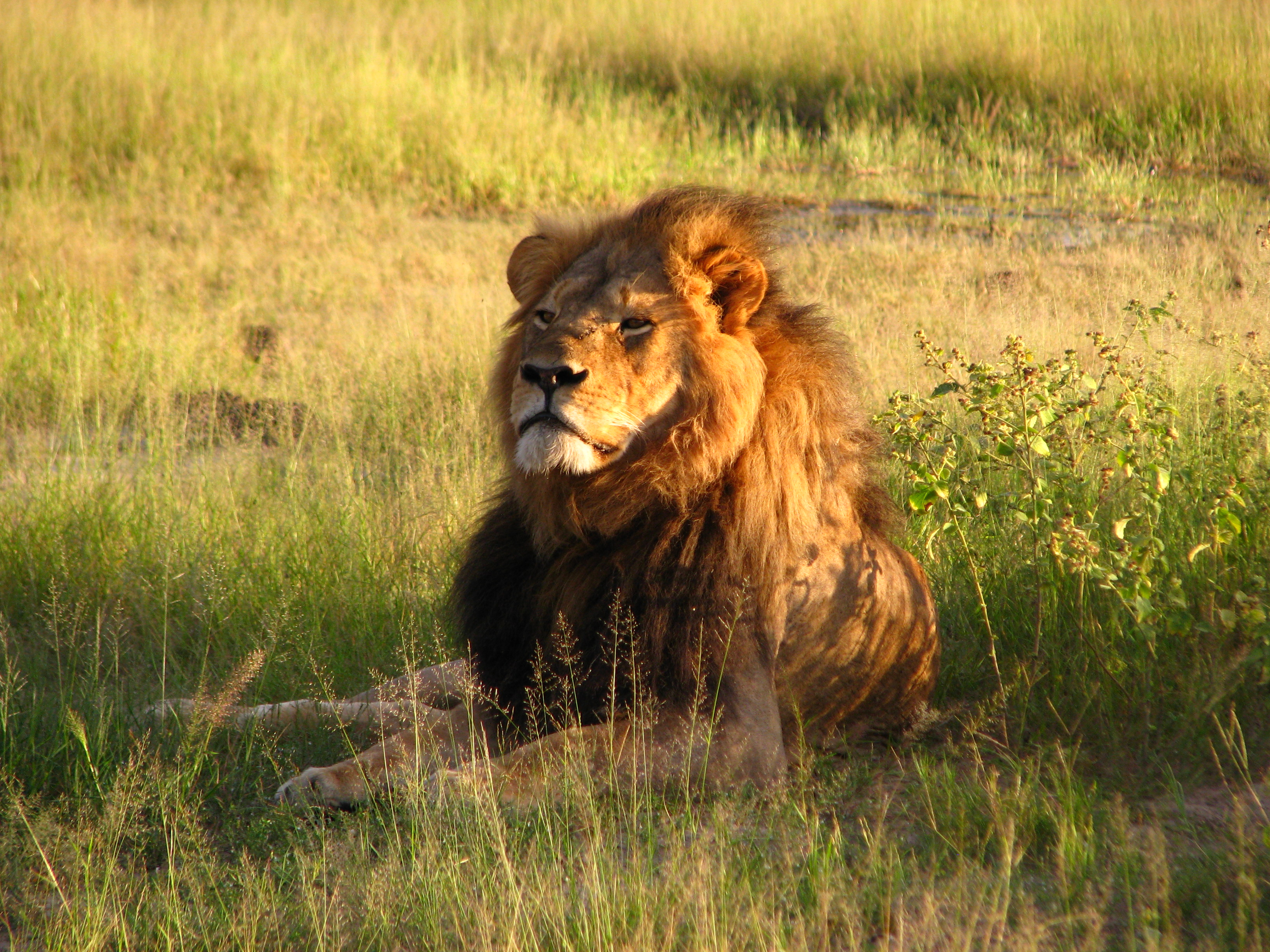 Cecil Hwange National Park, Zimbabwe 2010